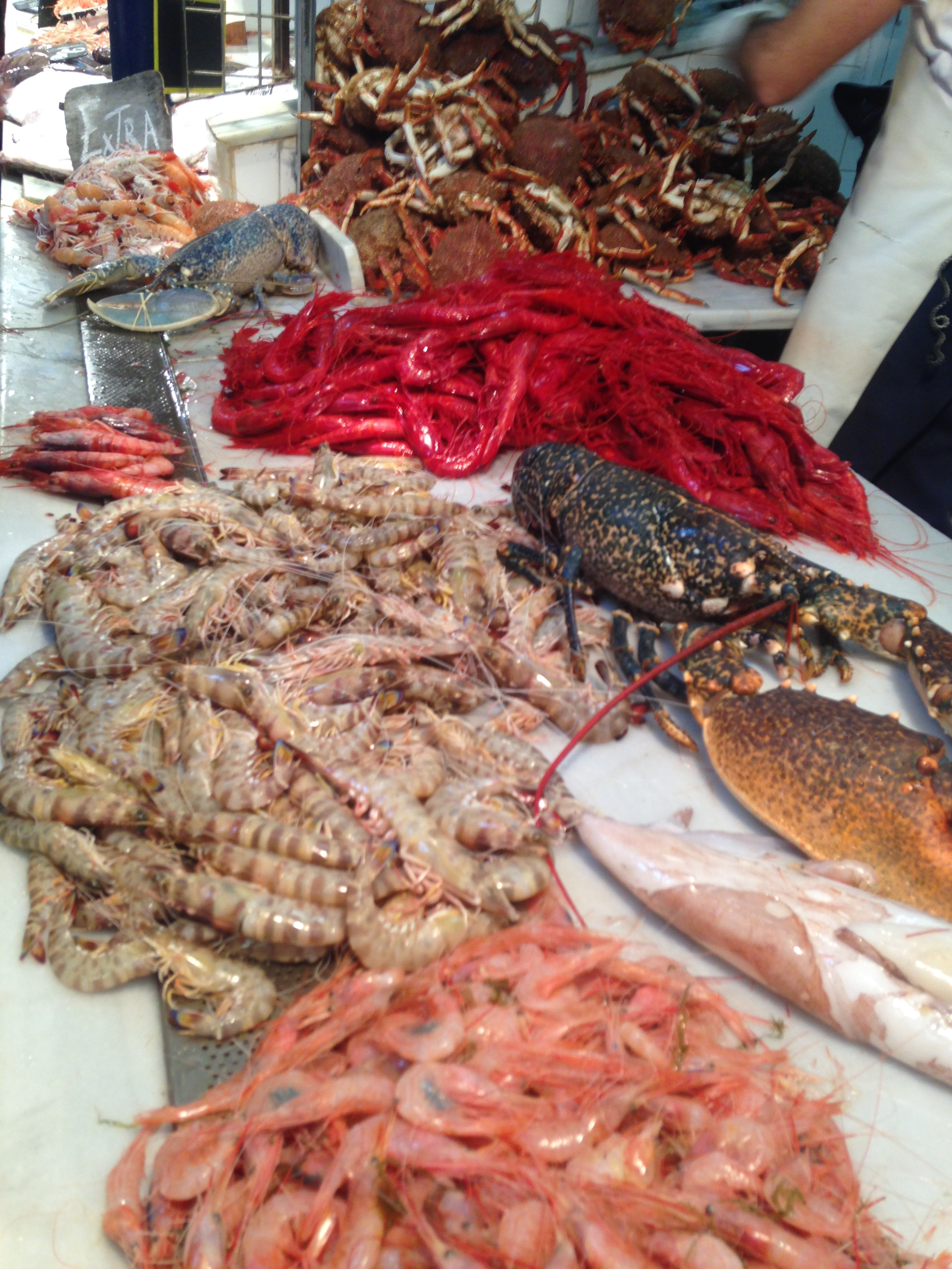 Seafood at Ceuta marketplace